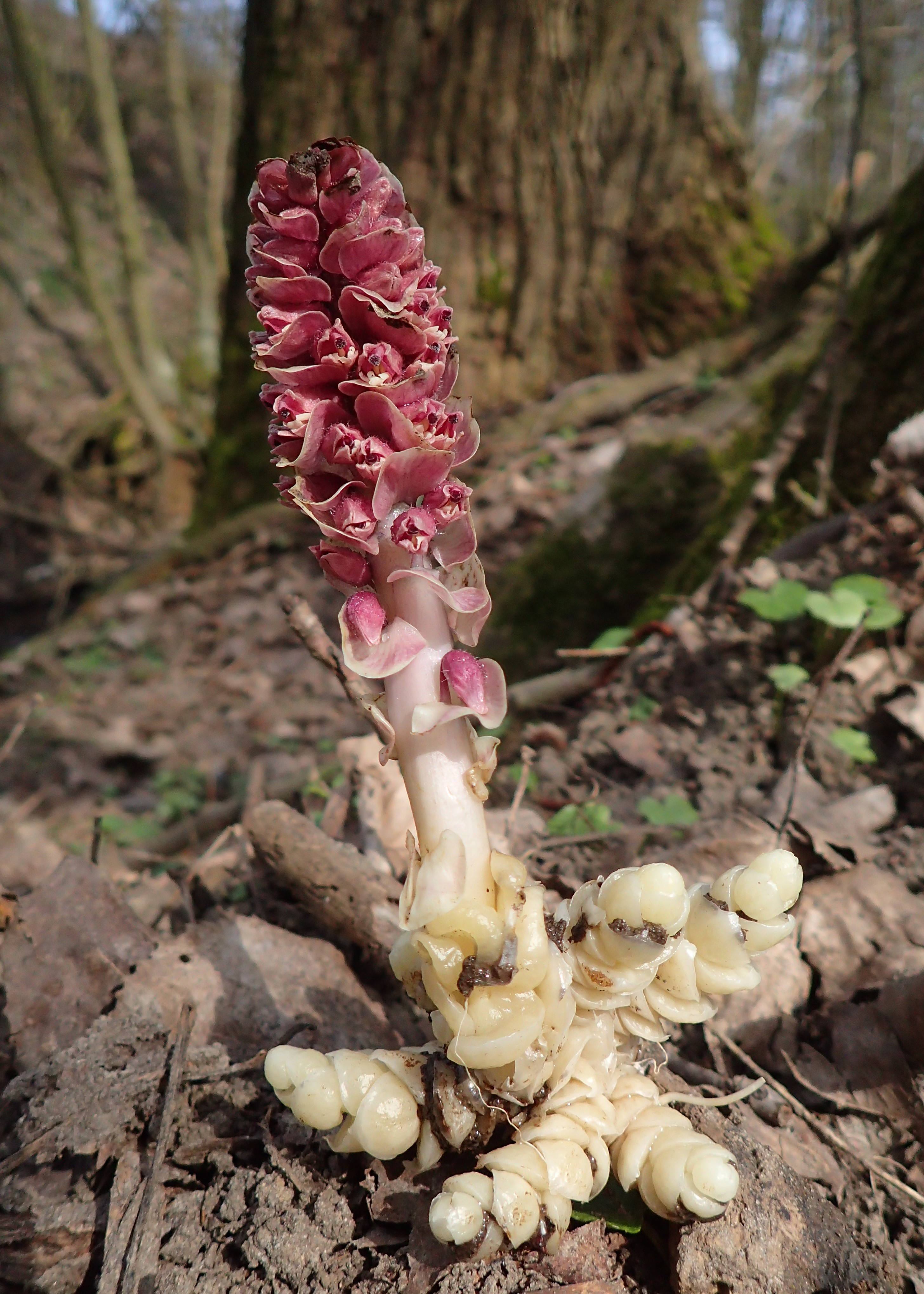 Lathraea squamaria (above and part of underground stem). Przęsocin, NW Poland